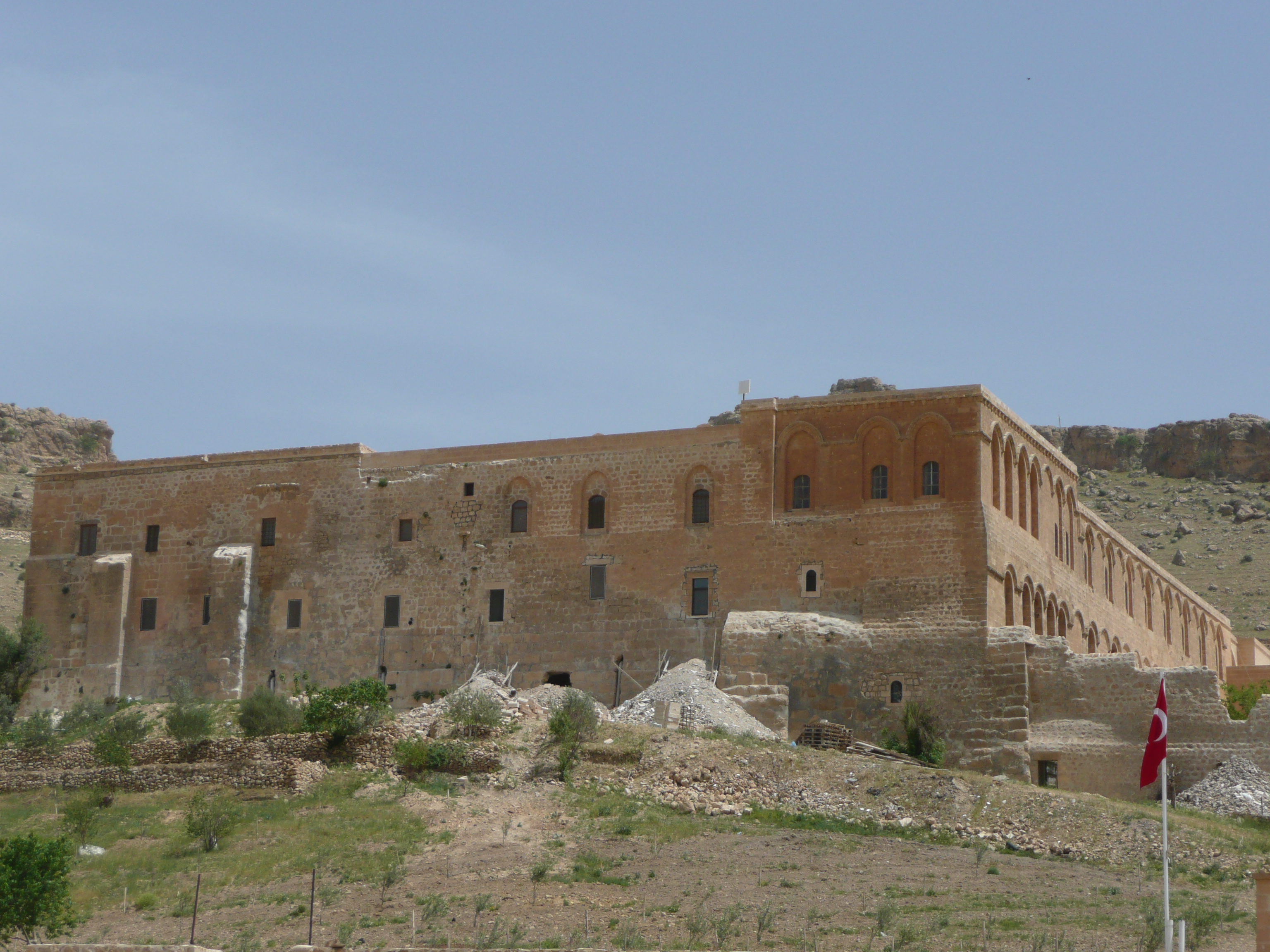 Photographs from Deyrulzaferan Monastry, Mardin, Turkey